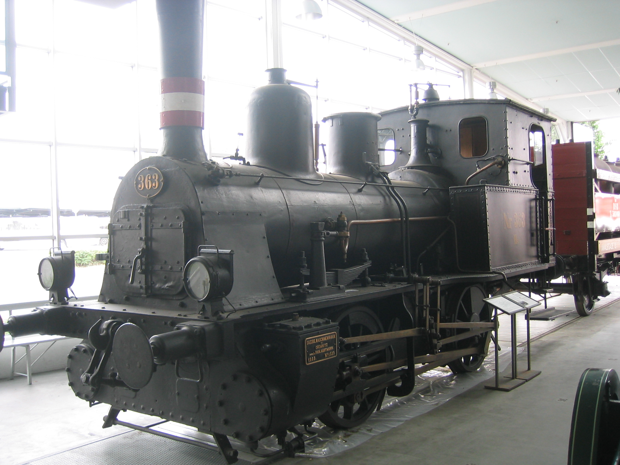 Steam Locomotive DSB Litra HS on display in Odense Railway Museum